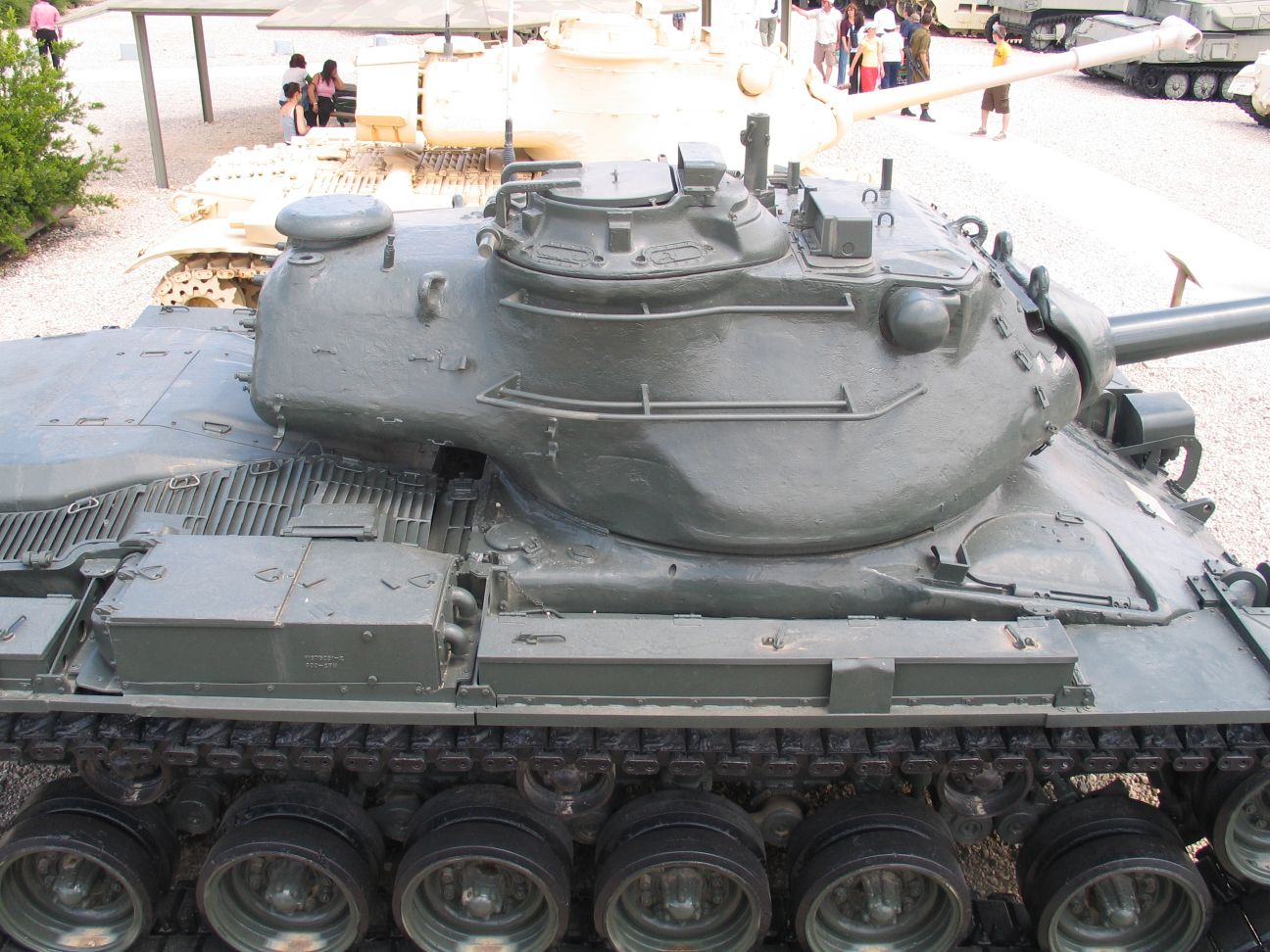 M47E2 Patton MBT in Yad la-Shiryon Museum, Israel. Mislabeled as M4A3.